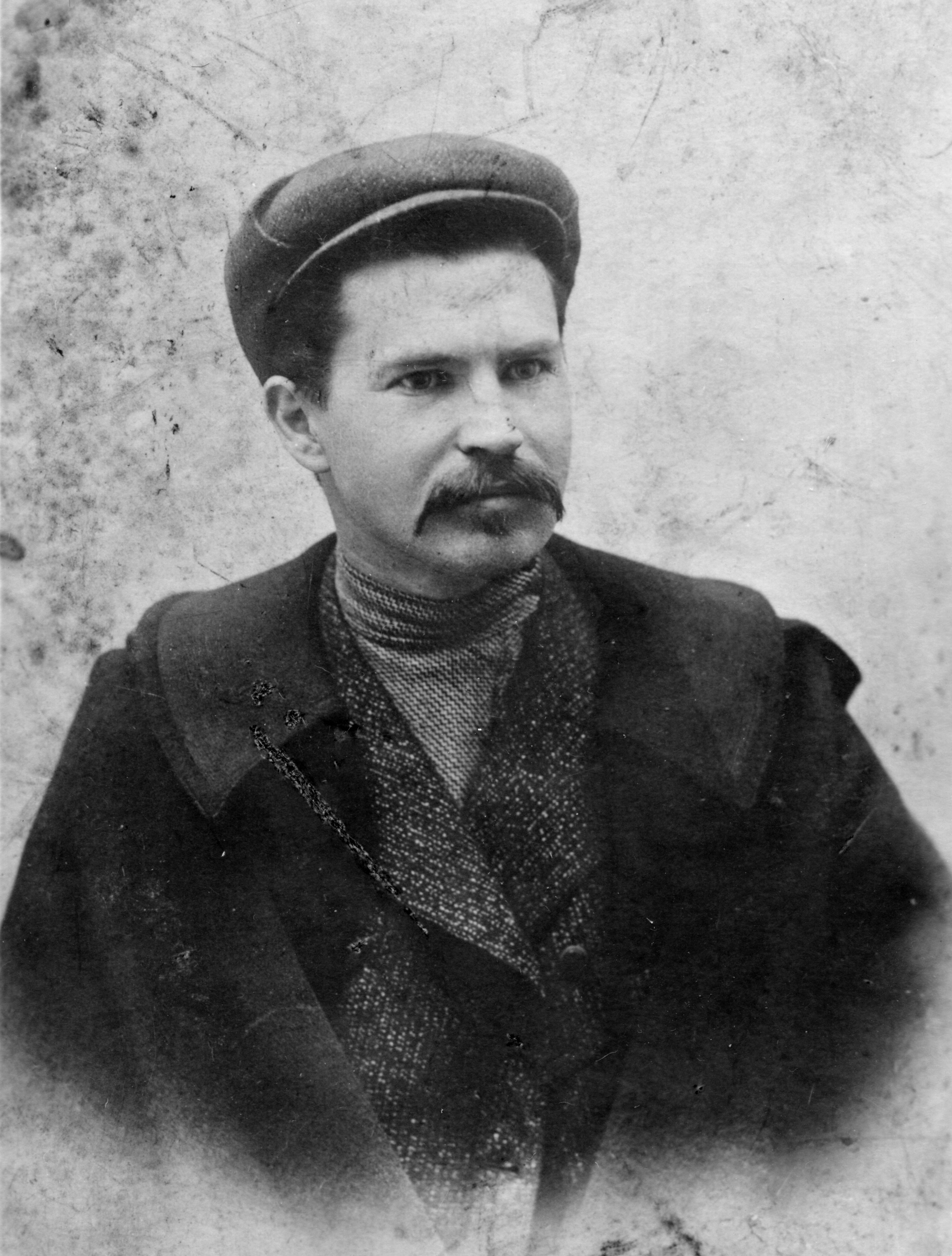 Russian gardener Bedro, Ivan Prokhorovich (1905)